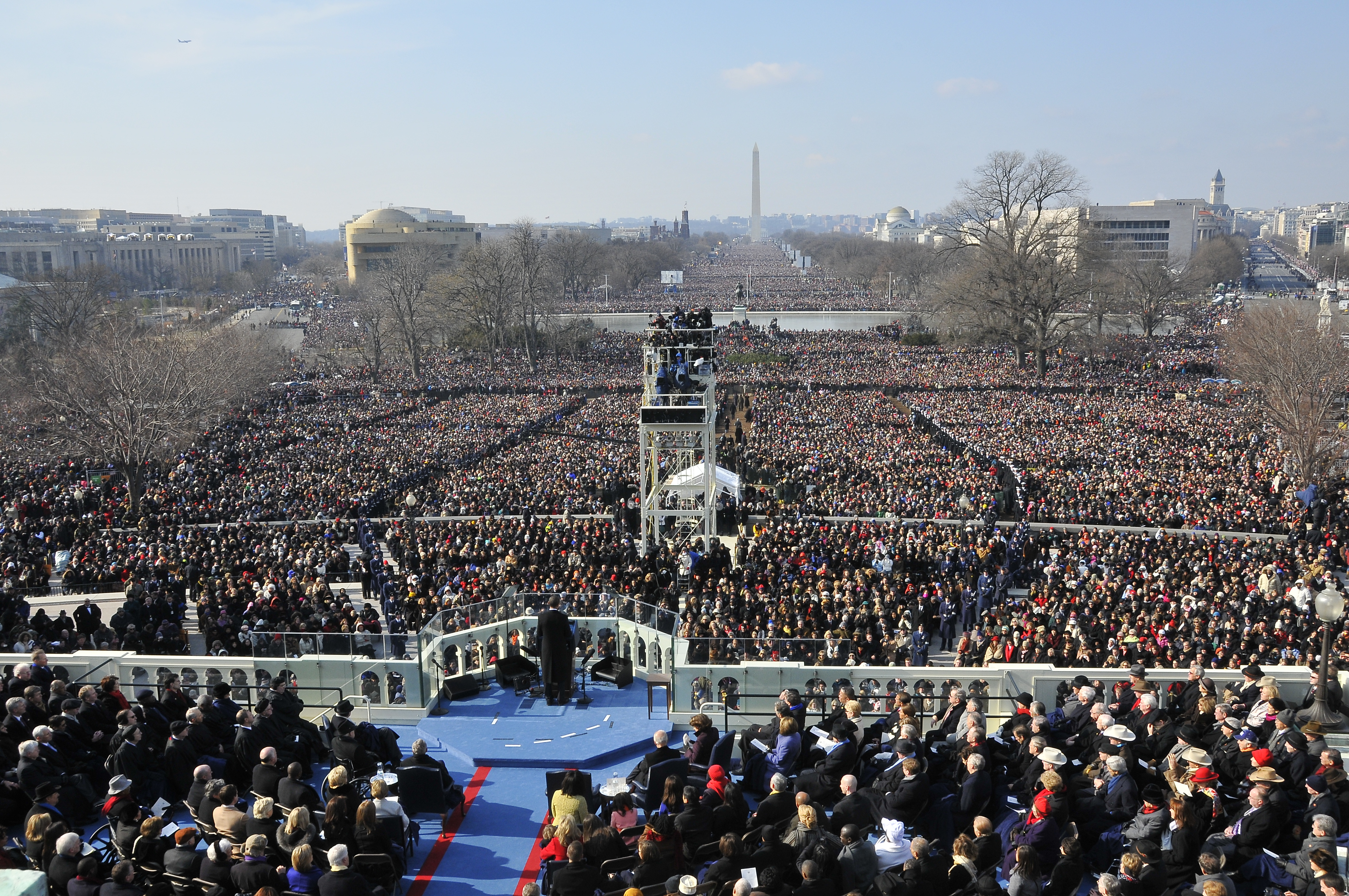 President Barack Obama gives his inaugural address to a worldwide audience from the West Steps of the U.S. Capitol after taking the oath of office in Washington, D.C., Jan. 20, 2009